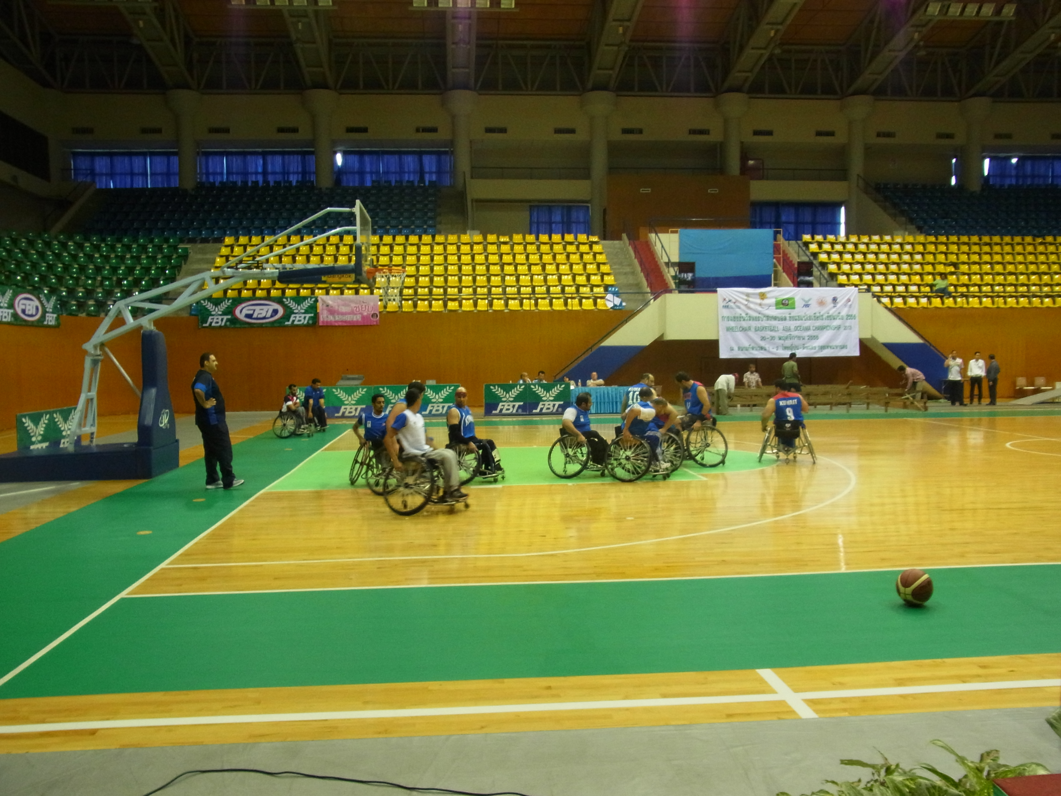 Kuwaiti mens wheelchair basketball team practising 2013